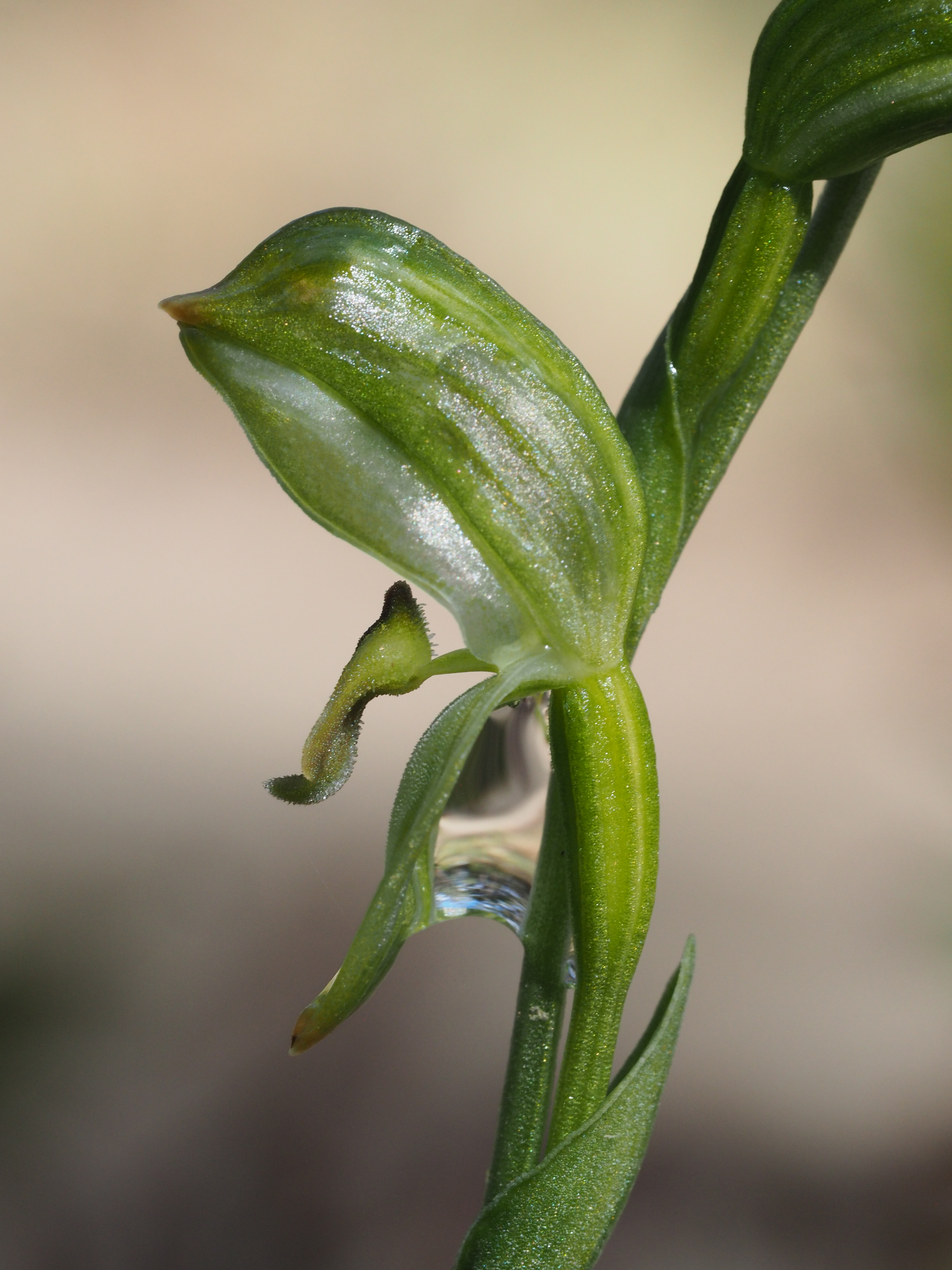 Pterostylis barringtonensis near the corner of Pheasant Creek Road and Dilgry Circle in Barrington Tops State Forest